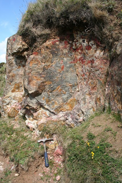 Donalds Hill Ignimbrite. This is a close-up of the ignimbrite discussed in 454756. The ignimbrite outcrop can be traced across country for some 30 kilometres, so the explosion which produced it must have been enormous.